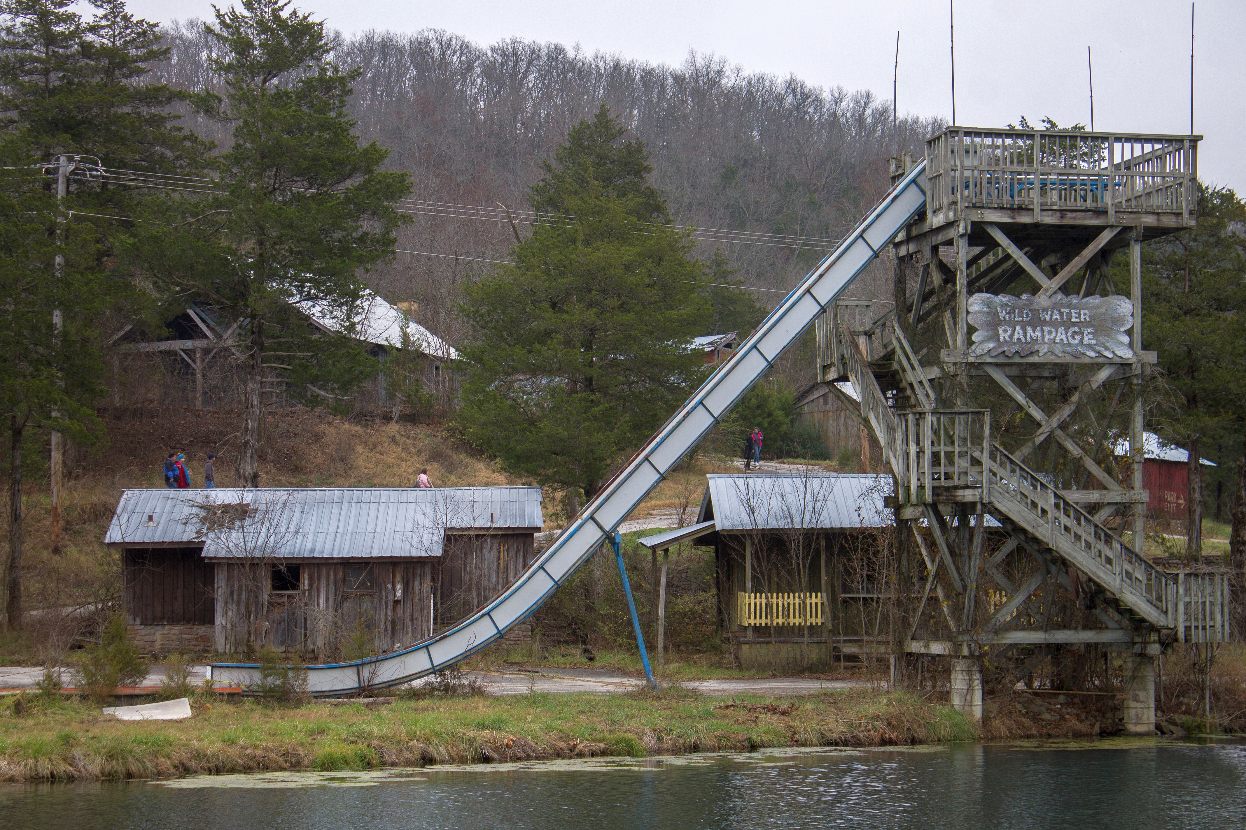 Abandoned water slide at Dogpatch, USA themepark in Arkansas.